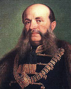 Portrait of Ivan Mažuranić (cropped)